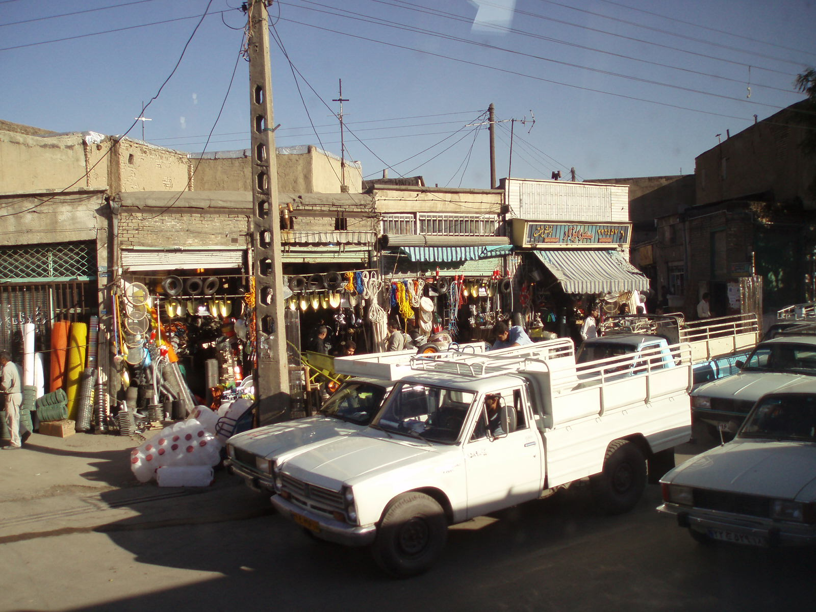 Streetscene in Hamedan, Iran.